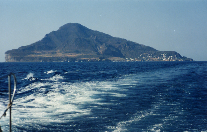 Panarea island, one of the Aeolian Islands